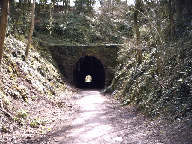 'Strawberry Line' north entrance to Shute Shelve Hill tunnel This entrance into the tunnel is under the 'soft' part of the hill and the first half is brick lined. After that the rock is strong enough to be self-supporting. Marks made by pickaxes during construction can still be seen.